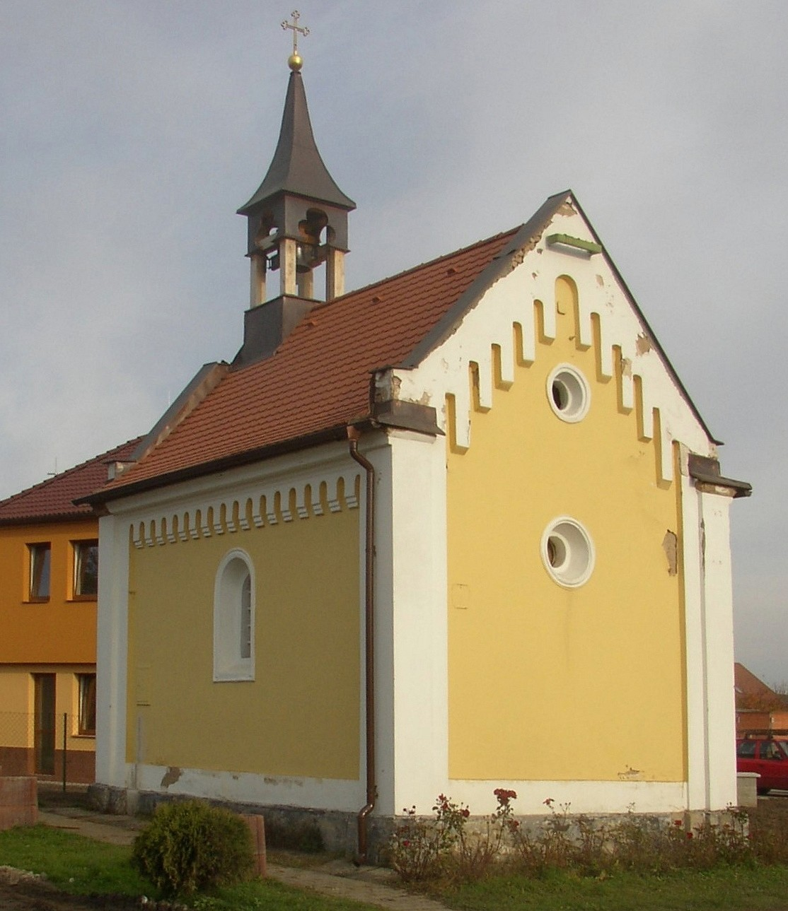 Assumption chapel from 1868 in Spojil, Pardubice District, Czech Republic.